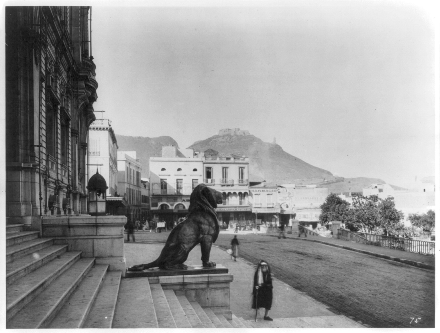 Title: Oran from steps of City Hall Physical description: 1 photographic print : gelatin silver ; 8 x 10 in. or smaller. Notes: Forms part of: Jackson, William Henry, 1843-1943. World's Transportation Commission photograph collection (Library of Congress).; Gift; Colorado Historical Society; 1949.; Photographic print made by LC from Jackson's vintage film negative.